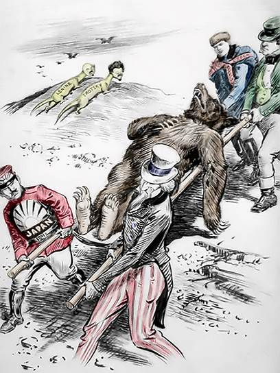 Allies "Japan," "Czech," England (John Bull), and United States (Uncle Sam) carrying litter with wounded bear (Soviet Union) while small animals "Trotsky" and "Lenine" (Lenin) watch from sand hill.